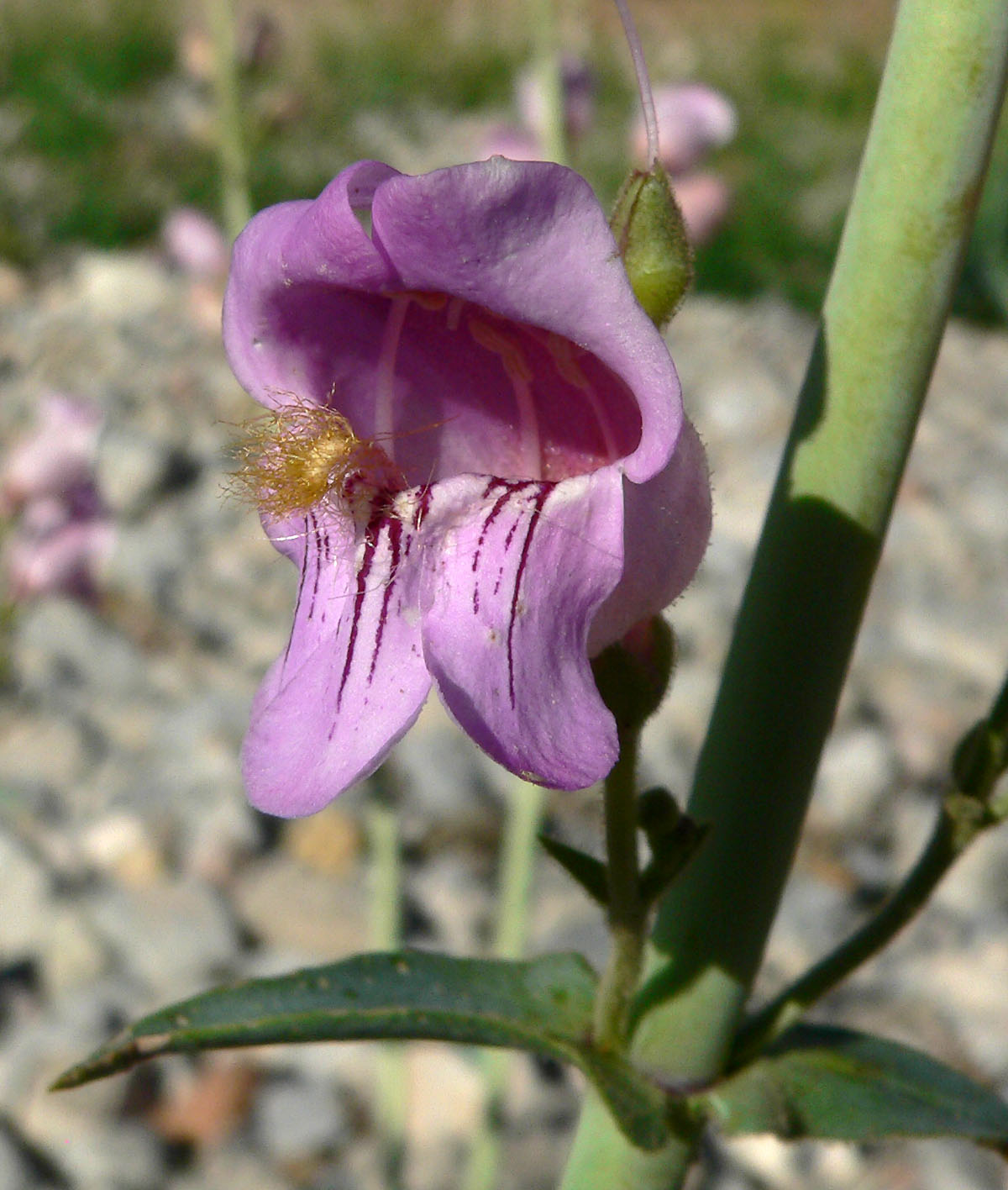 Penstemon palmeri. In Lovell Canyon, Spring Mountains, southern Nevada.